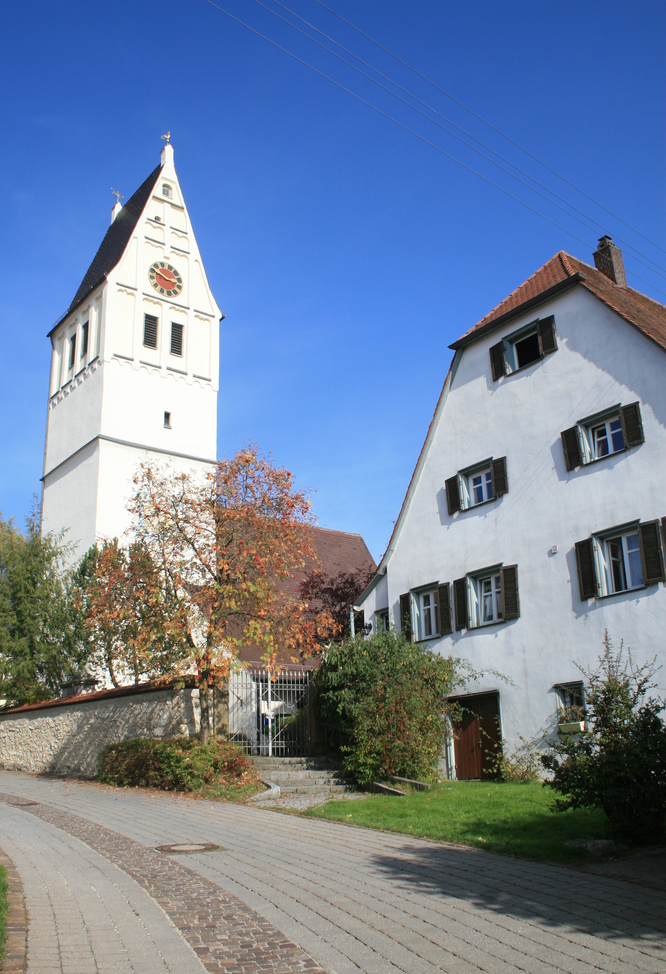 SW view of the steeple of Laurentius church